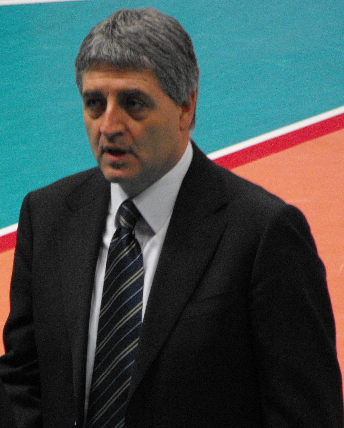 Giuseppe Cormio, italian sport manager